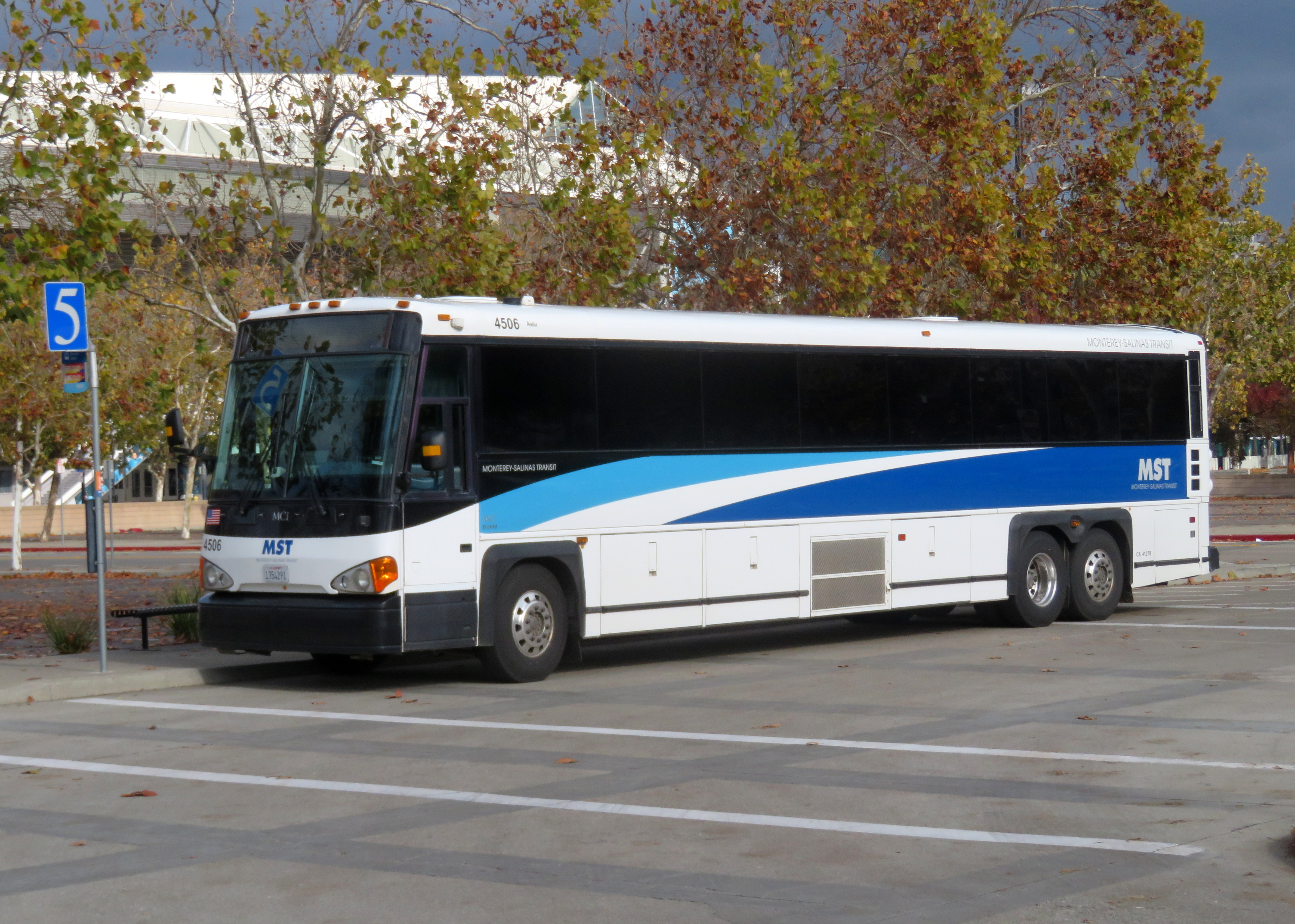 Monterey–Salinas Transit at San Jose Diridon station in November 2019